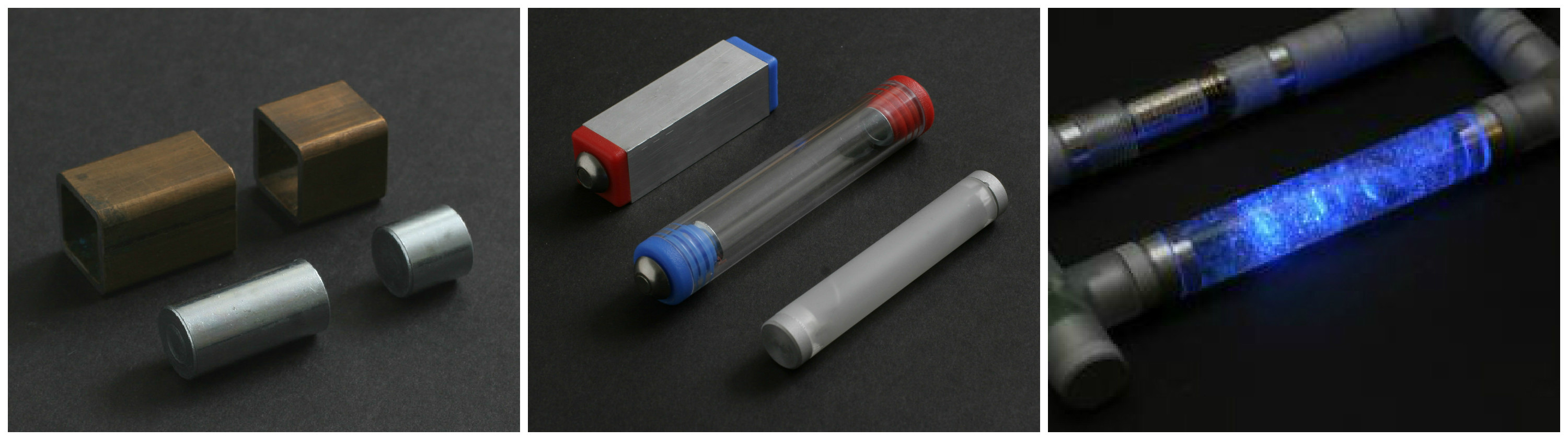 Elex Pipe prototypes and elements